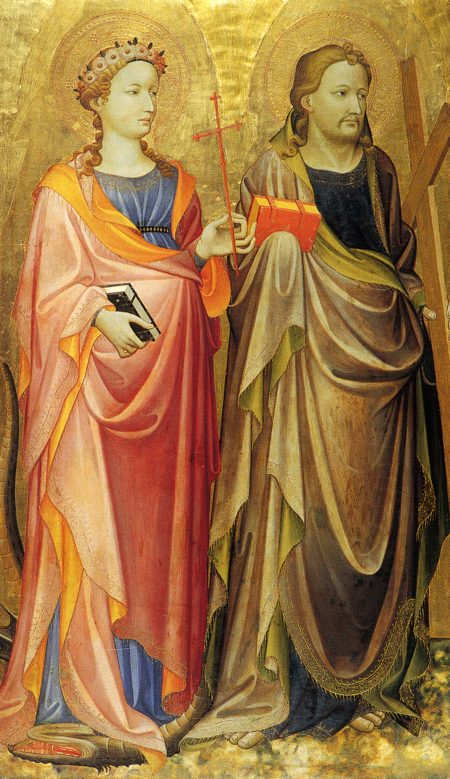 A digitisation of a pre-1380 art image of the siblings Violante Visconti and Gian Galeazzo Visconti. Violante Visconti was a wife to a son of the King of England and sister-in-law to a daughter of the King of France. She also had cousins who married into Austrian and Bavarian nobility and Cypriot royalty.